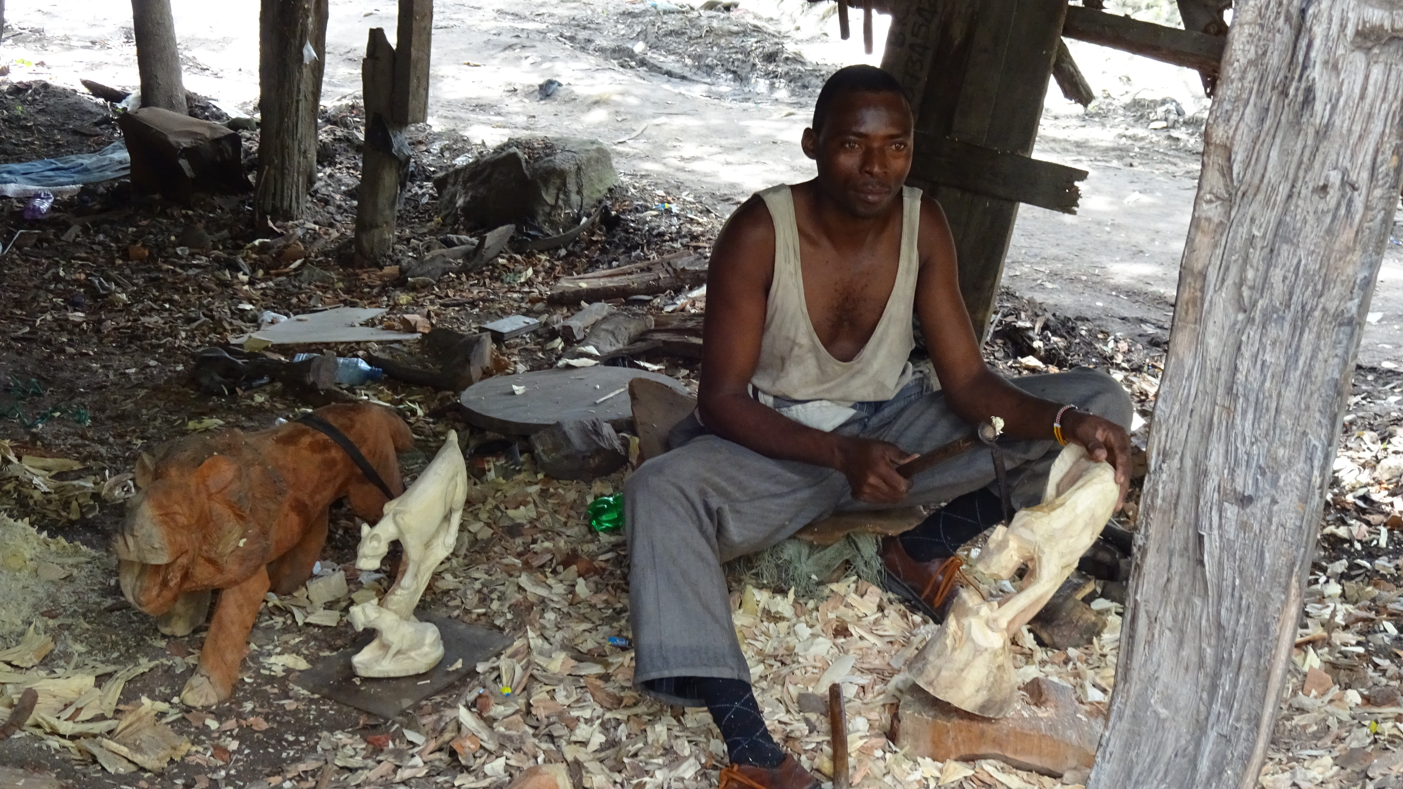 One of the many wood carvers at Akamba Handicraft Factory, Mombasa, Kenya. This is an image of "African people at work" from Kenya